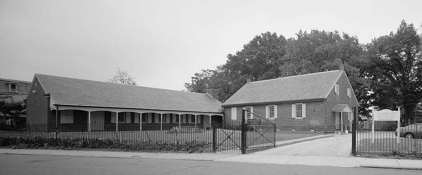 Photograph of Frankford Friends (Preparative) Meeting House, Philadelphia, Pennsylvania. Building/structure dates: 1775 initial construction. Subsequent work: 1811, 1947, 1962 Significance: The original portion of the Frankford Preparative Friends Meeting House was erected in 1775-76, making it the oldest Friends meeting house in Philadelphia. Although the construction of meeting houses within the city dates back to its founding in 1680s, most were replaced by the nineteenth century and some more than once.